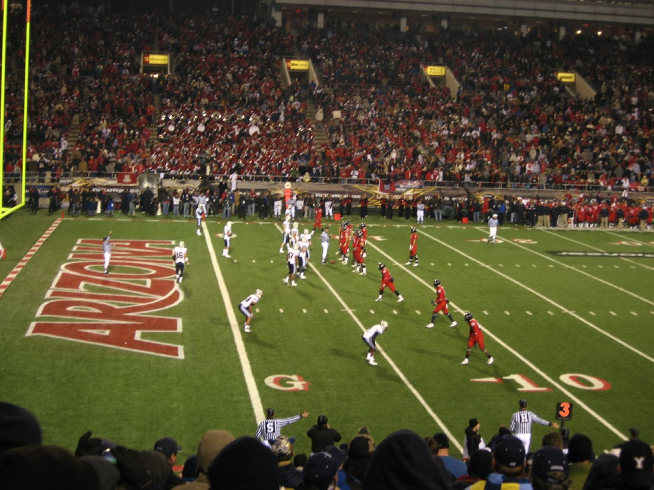 Arizona Wildcats 31, BYU Cougars 21